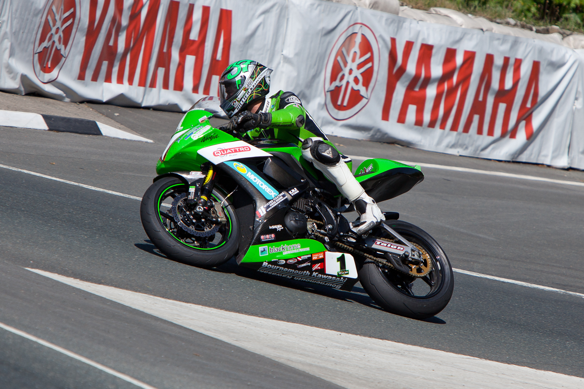 Isle of Man TT 2013 Lightweight TT winner James Hillier